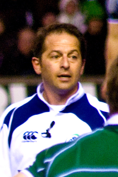 South-African rugby union referee Jonathan Kaplan during the 2009 Six Nations match Scotland - Ireland